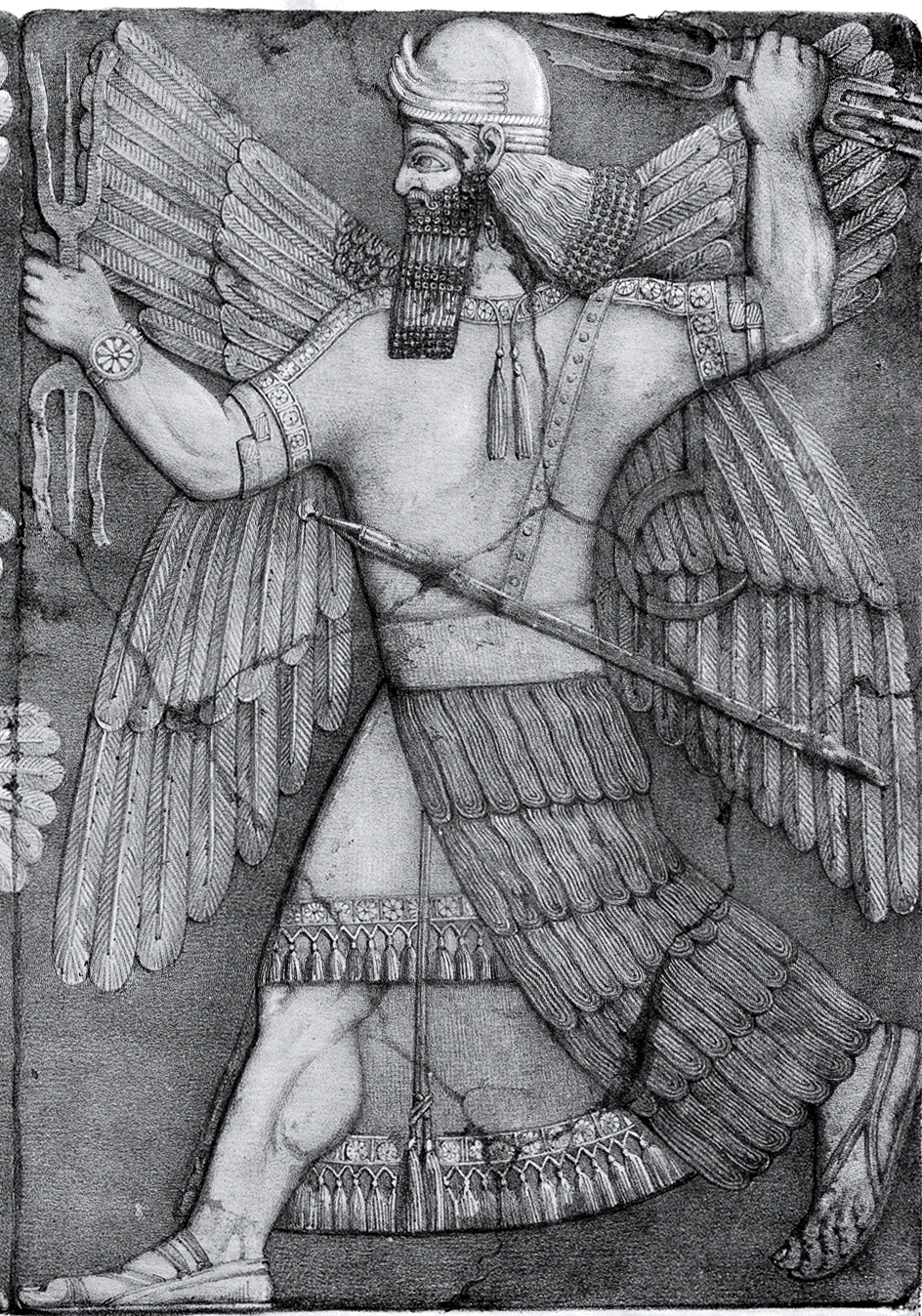 Cropped image of a monumental stone relief from the temple of Ninurta at Kalhu dating to circa 883-859 BC, showing the god Ninurta, or possibly Adad, pursuing a leonine monster